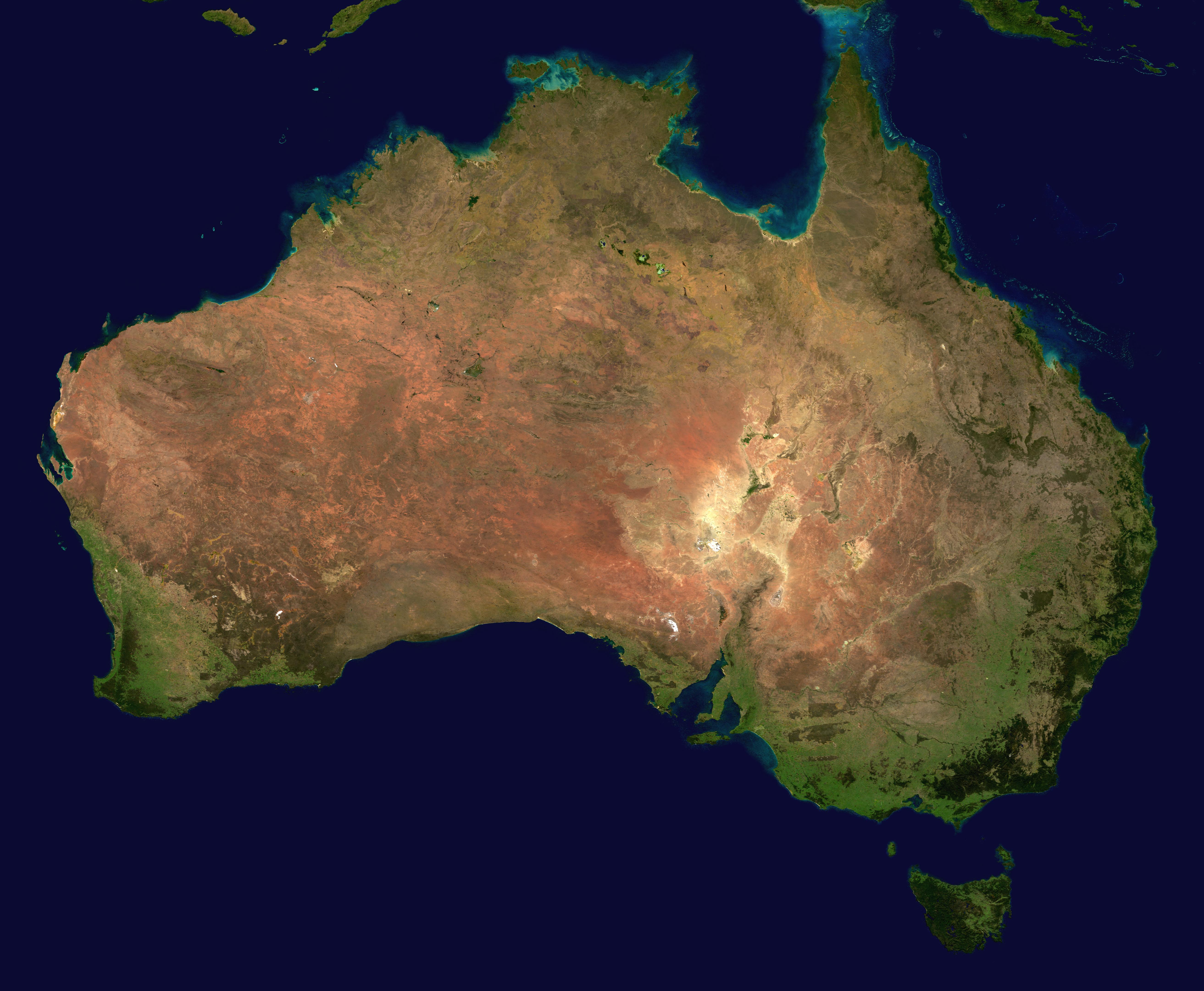 A composed satellite photograph of Australia.